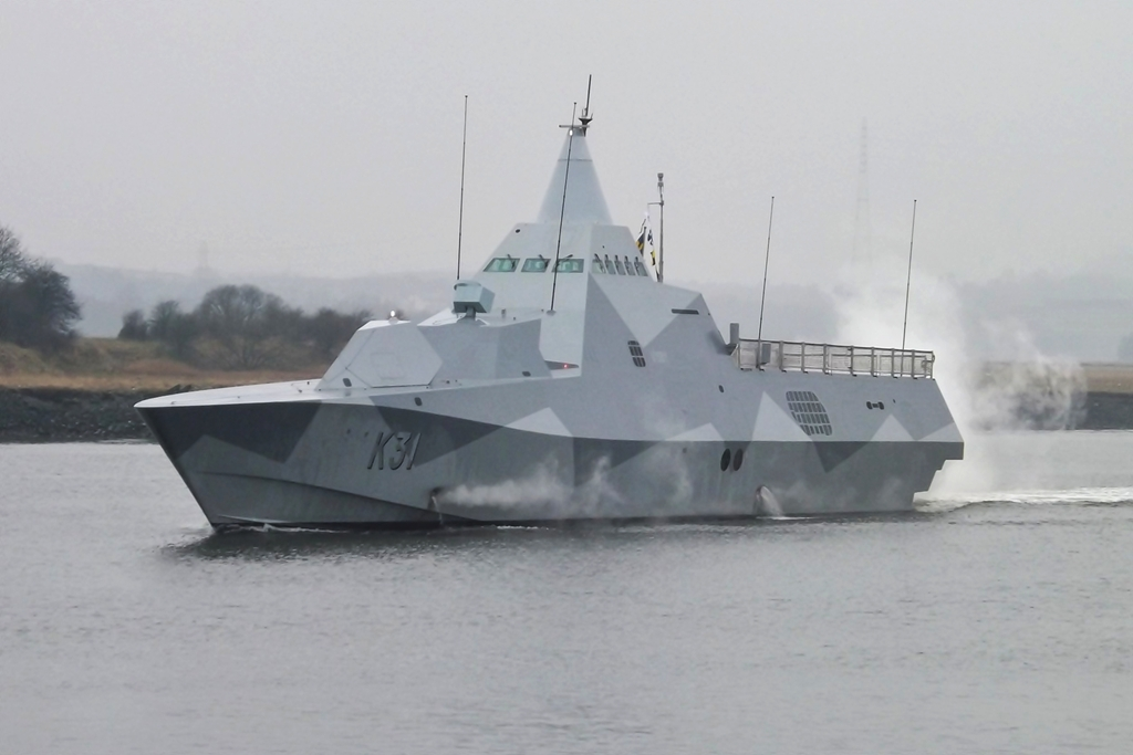 K31 HSwMS Visby, a Visby-class Corvette of the Swedish Navy